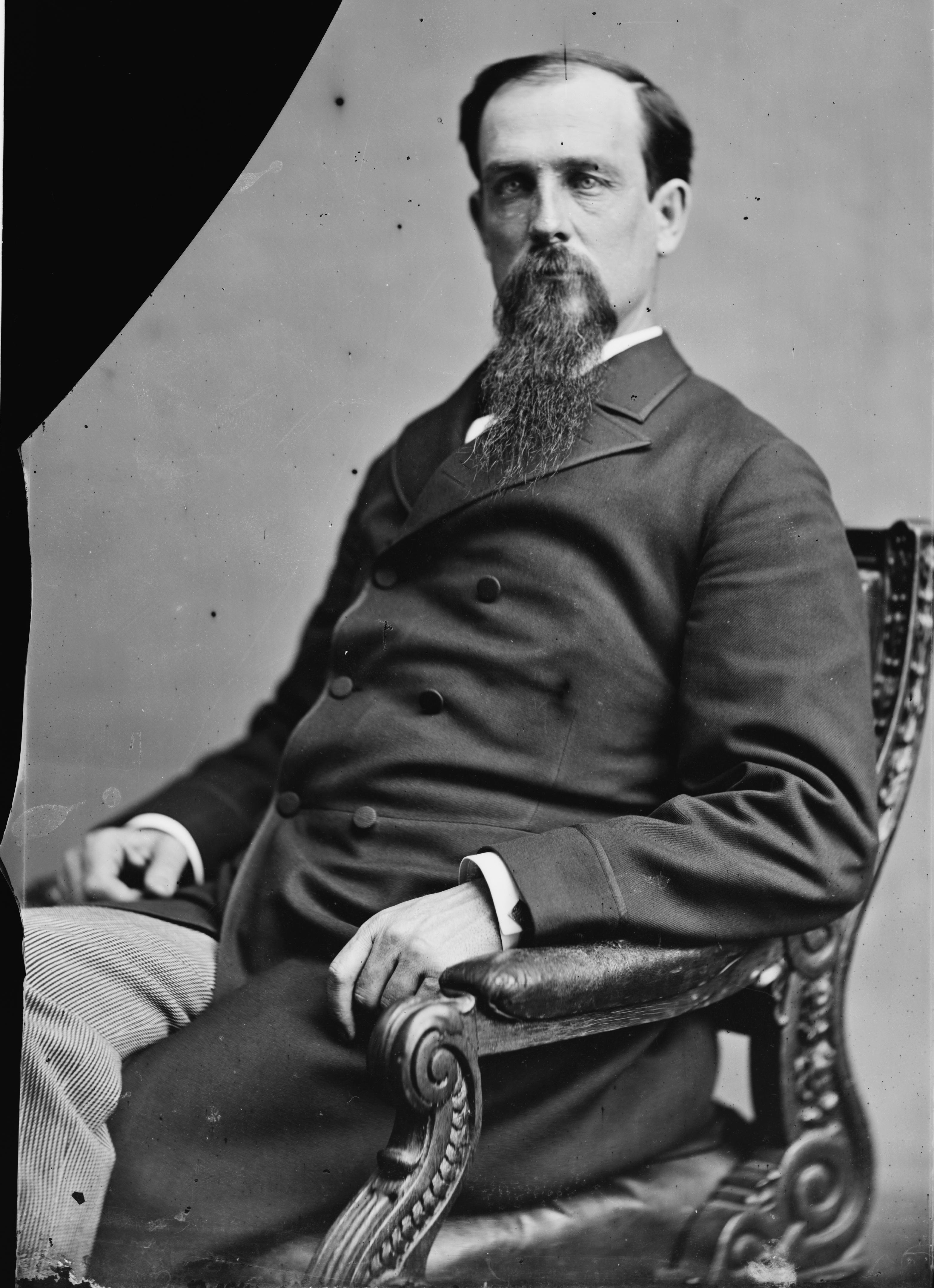 Harrison H. Riddleberger. Library of Congress description: "Riddleberger, Hon. Harrison Holt of Va. Confederate army. Lt. in Infantry. Captain of Cavalry".